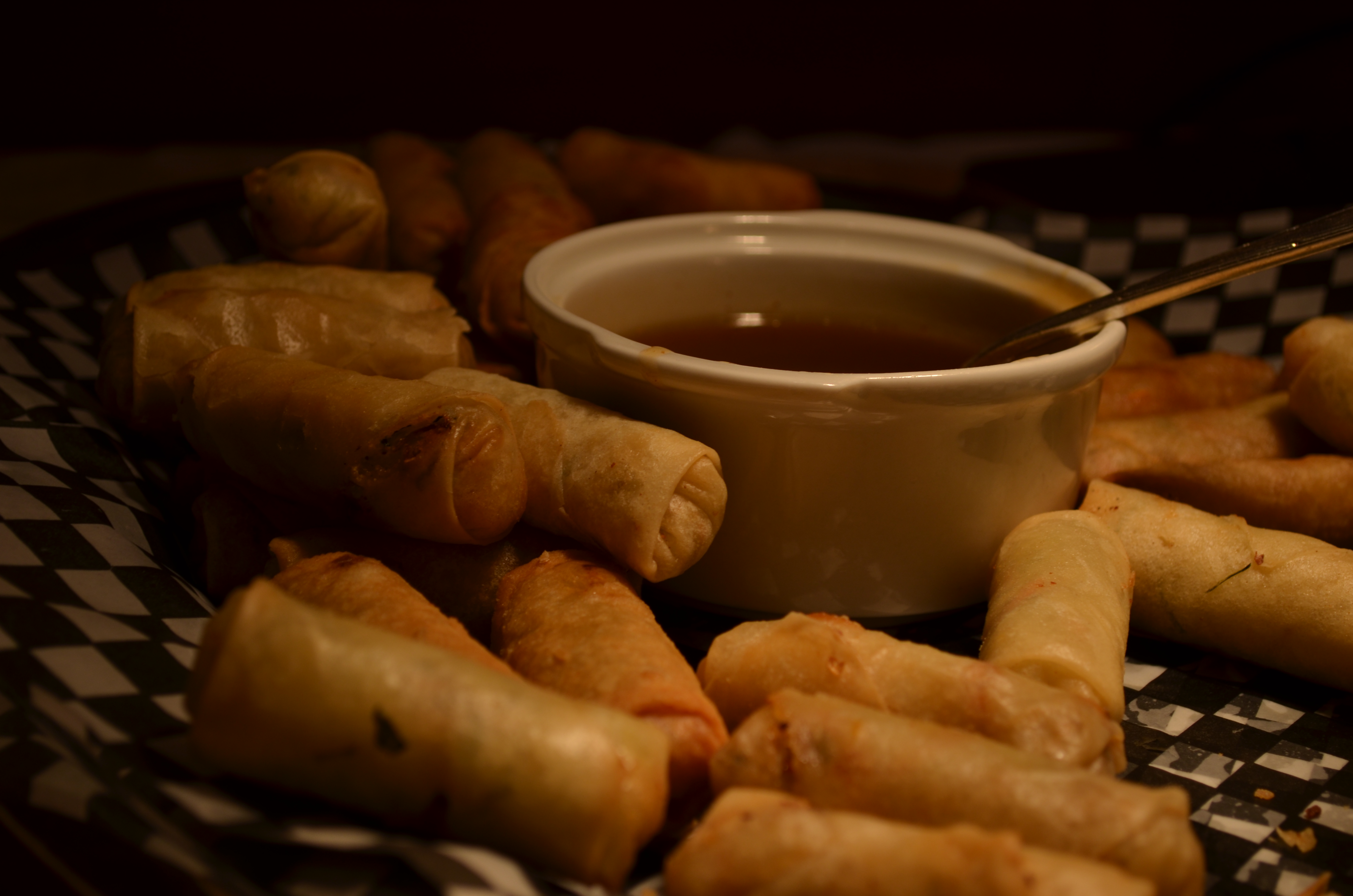 Vegetable spring rolls with dipping sauce.